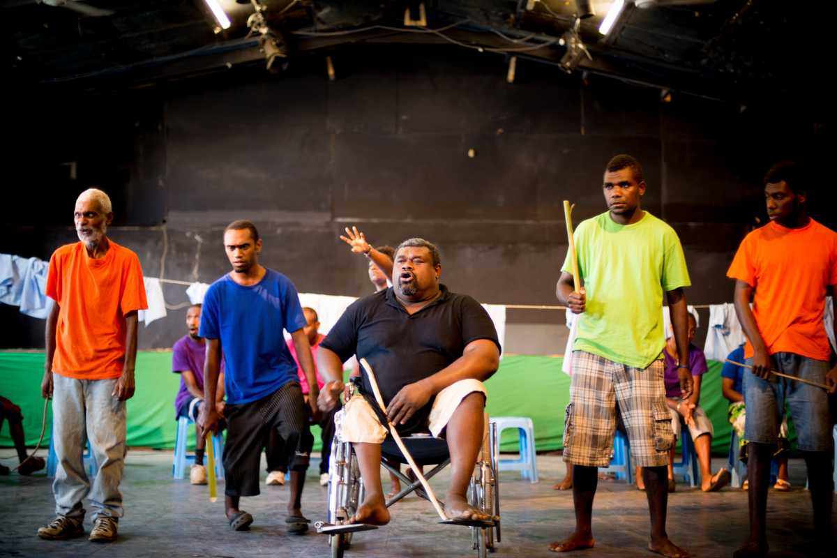 A local disability theatre group perform a play about the daily prejudices faced by people living with disability at the Wan Smolbag Theatre and Youth Centre, Port Vila, Vanuatu, February 2013. Photo: Graham Crumb for DFAT